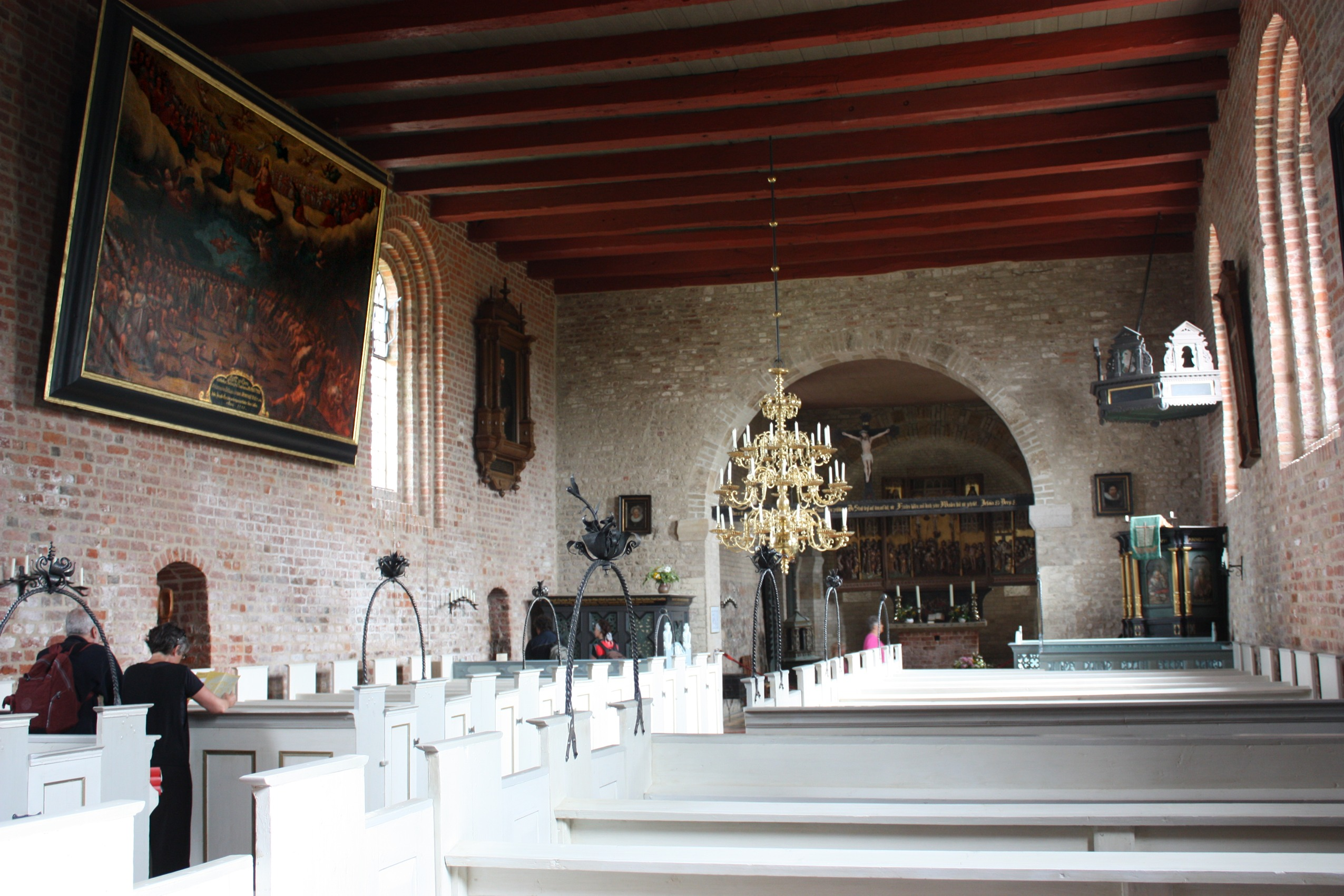 Pellworm, Kirche St.Salvator - Innenansicht This is a photograph of an architectural monument. .1